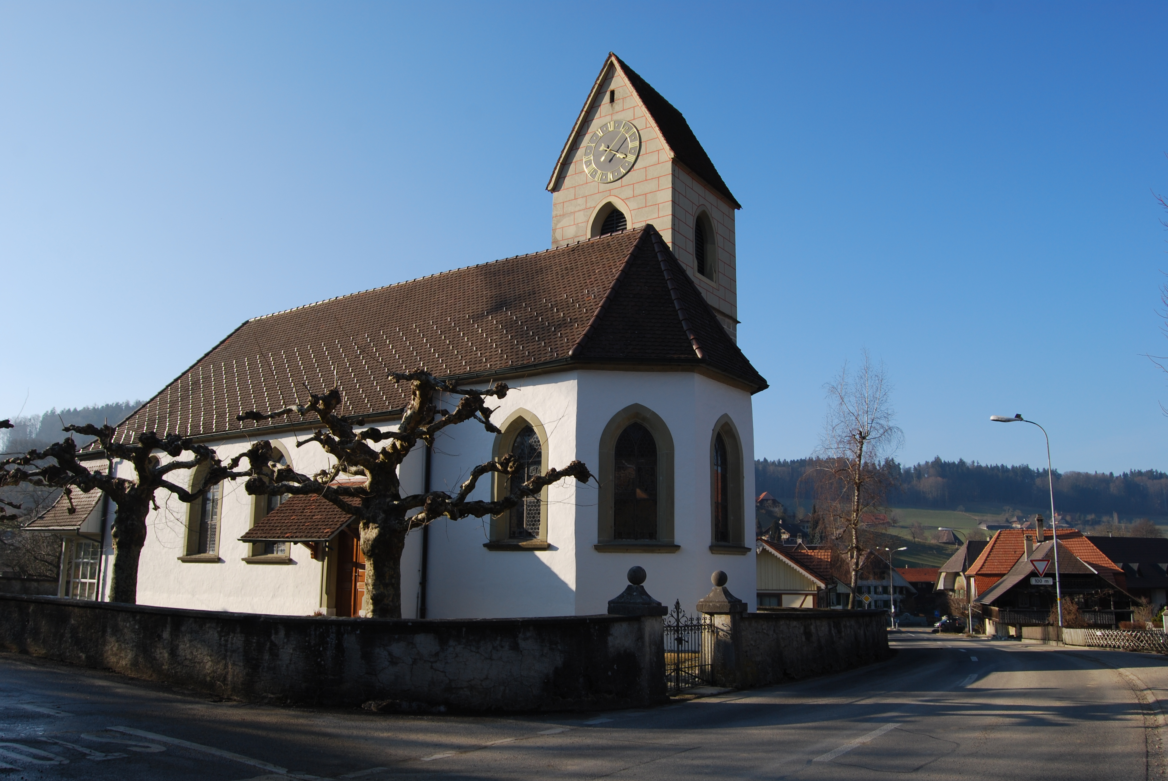 Protestant Church of Ursenbach, canton of Bern, Switzerland